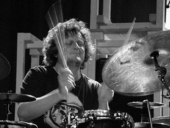 Jim Black performing in Aarhus Denmark 2014